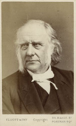 Thomas Guthrie (1803-1873)